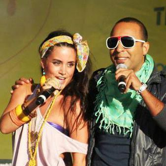 Arash and Rebecca in a concert in 2008